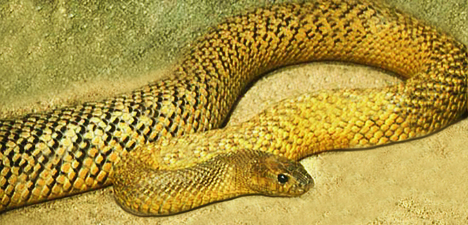 Olive colored Fierce Snake (Oxyuranus microlepidotus)